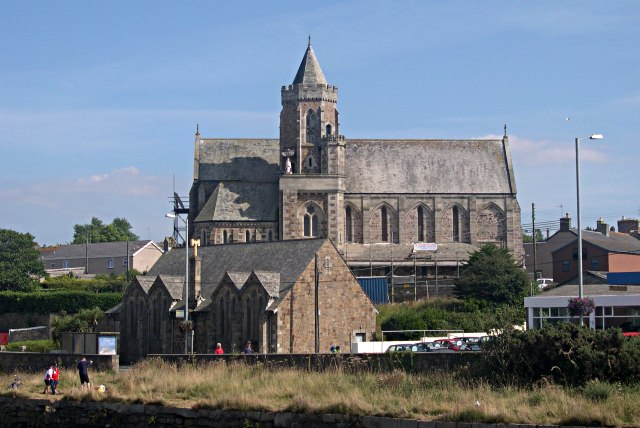 St Elwyn's parish church, Hayle, Cornwall, seen from the north